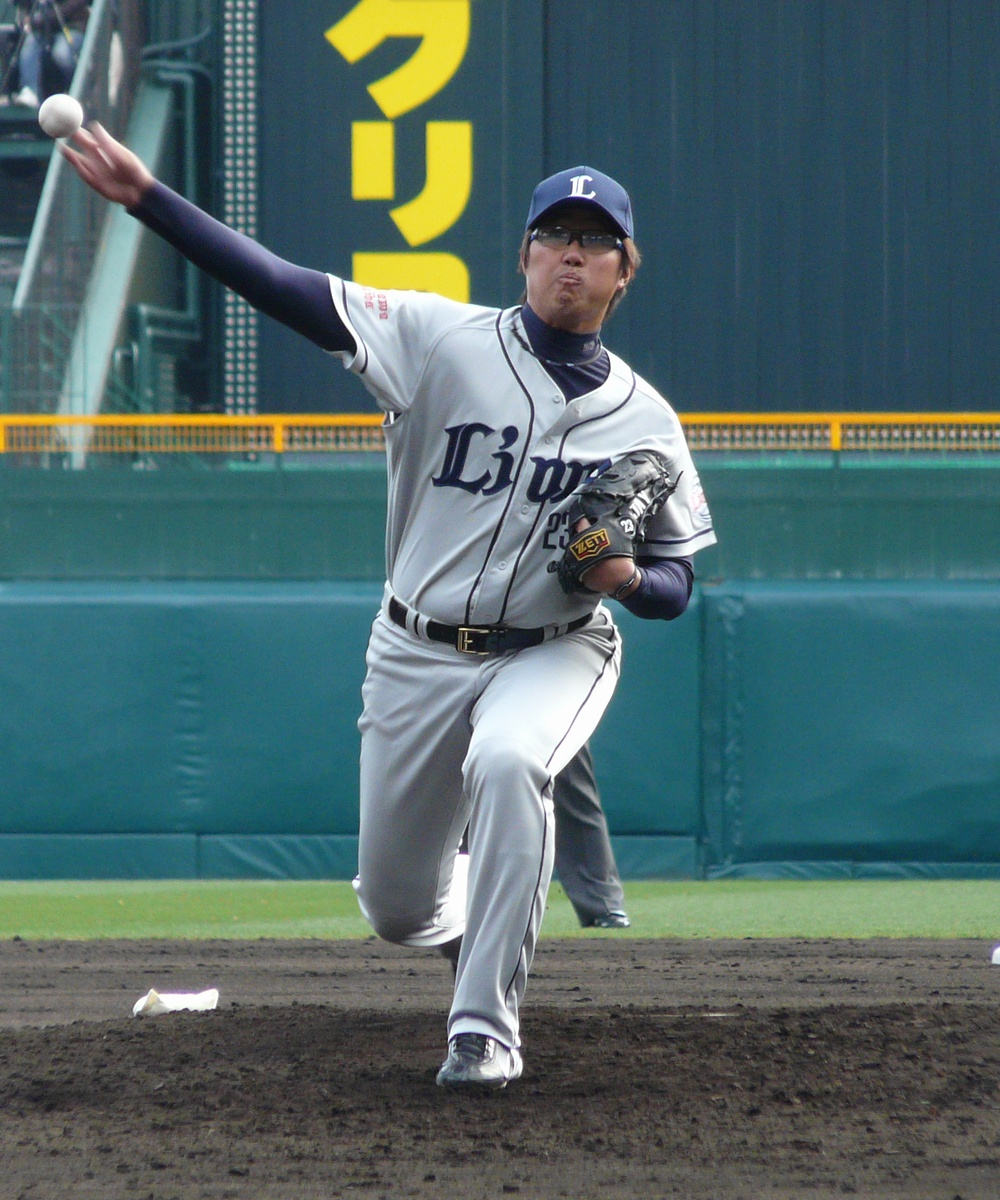 Ming-chieh Hsu, pitcher of the Saitama Seibu Lions, at Hanshin Koshien Stadium.